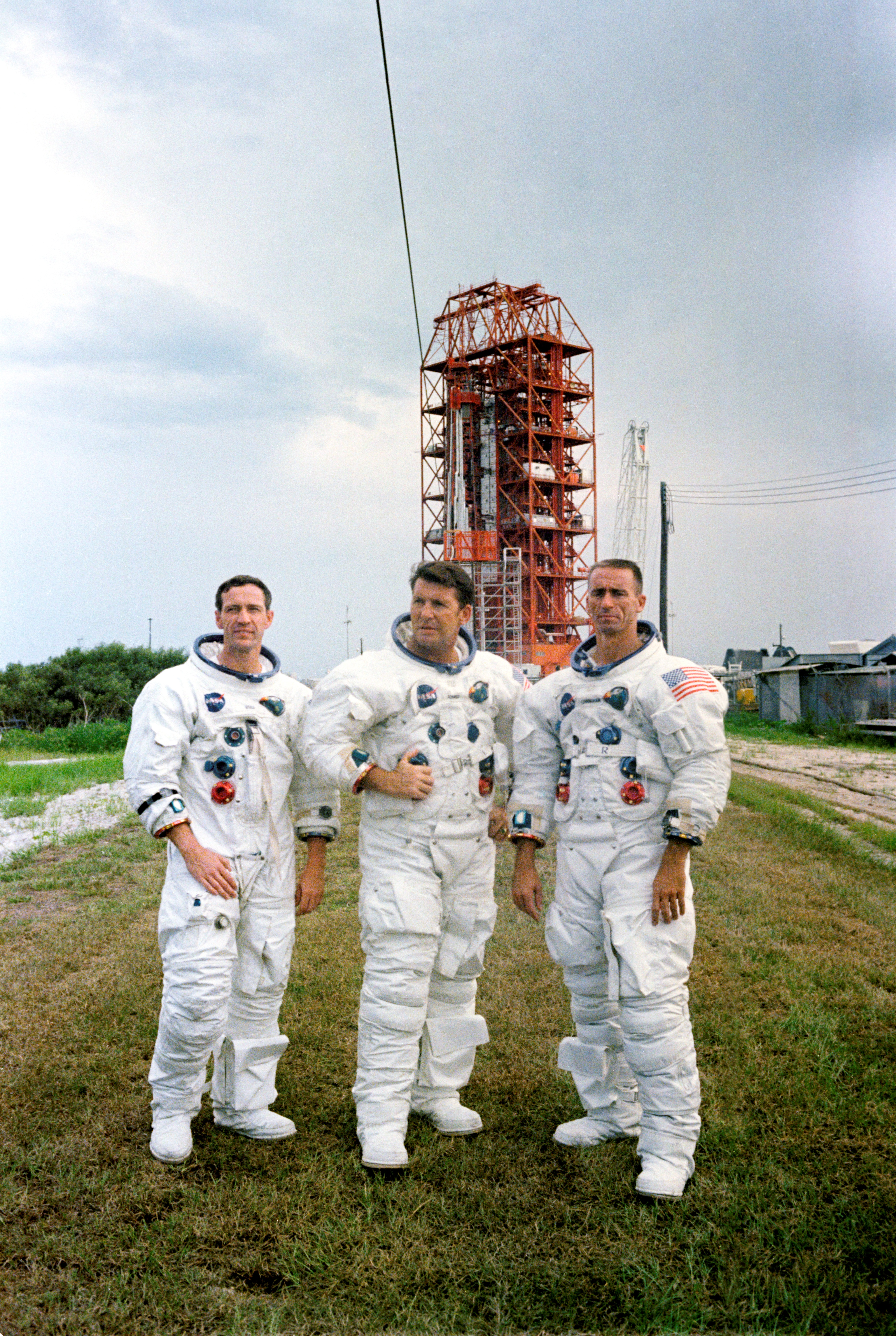 (September 9, 1968) The Apollo 7 prime crew at Launch Pad 34 after successfully completing their emergency egress training. The astronauts, from left to right: Donn F. Eisele, Command Module Pilot; Walter M. Schirra, Jr., Commander; and Walter Cunningham, Lunar Module Pilot. Image # : KSC-68PC-121